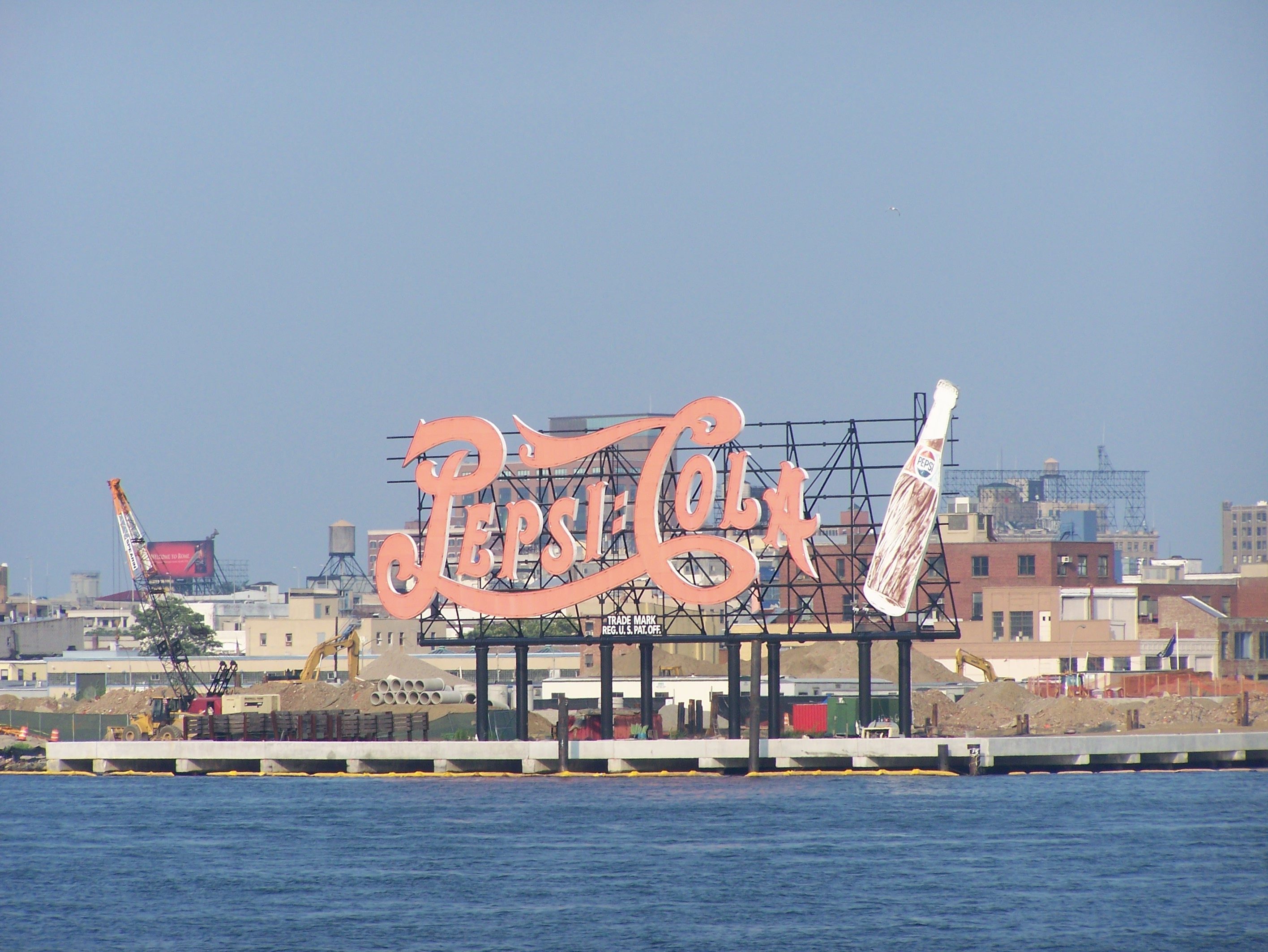 Pepsi-Cola sign in what was in the process of becoming Gantry Plaza State Park, Long Island City, New York, 2006.